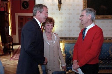 President George W. Bush greets Mister Rogers in the Blue Room before an early childhood education event in the East Room April 3, 2002.